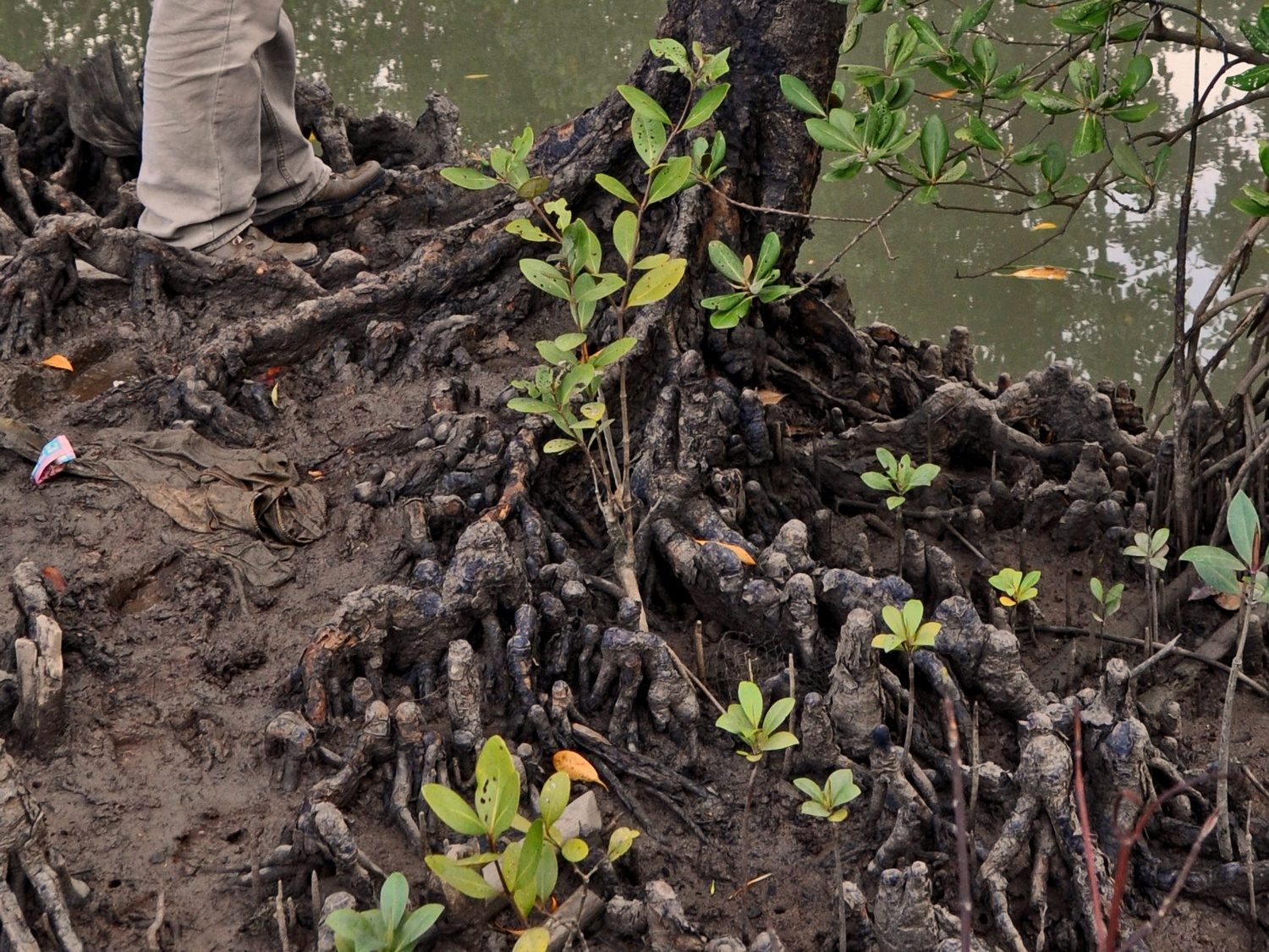 Lenggadai (Bruguiera parviflora) knee roots. From Kotabaru, South Kalimantan, Indonesia.